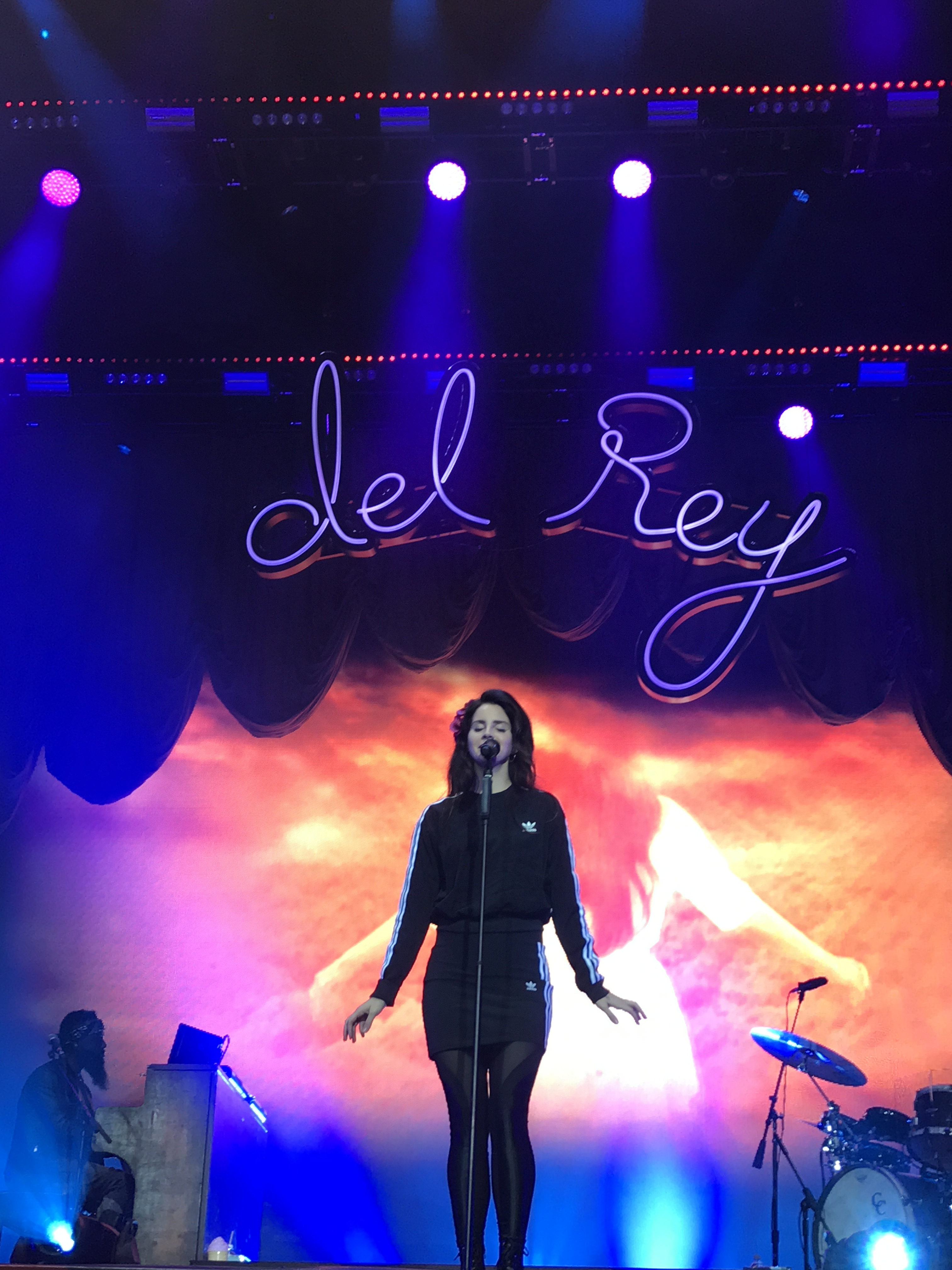 Lana Del Rey performing during the Flow Festival 2017 (Helsinki, Finland).